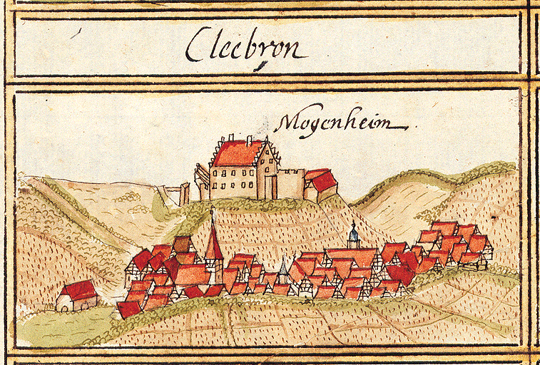 View of Cleebronn from the forest register books created by Andreas Kieser